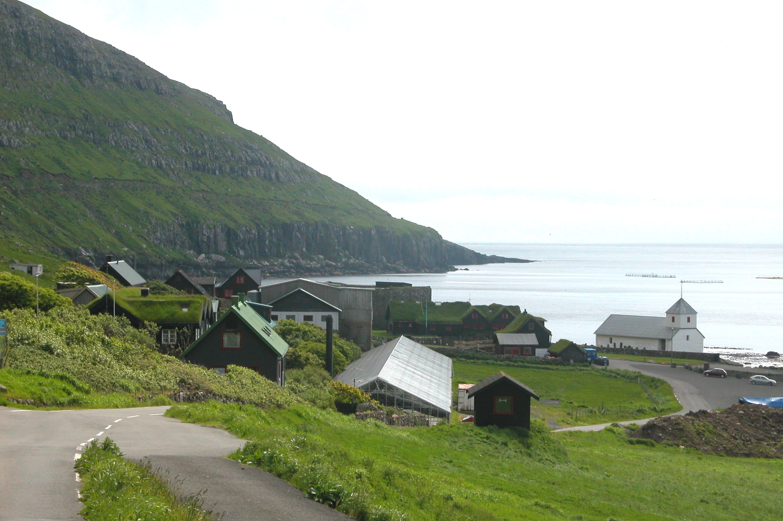 Kirkjubøur on Streymoy, Faroe Islands